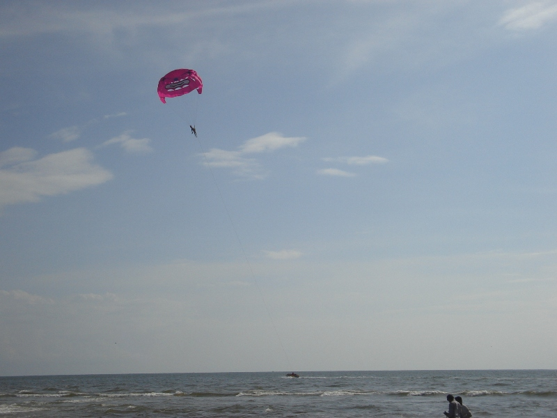 Parasailing at Colva beach, Margao.